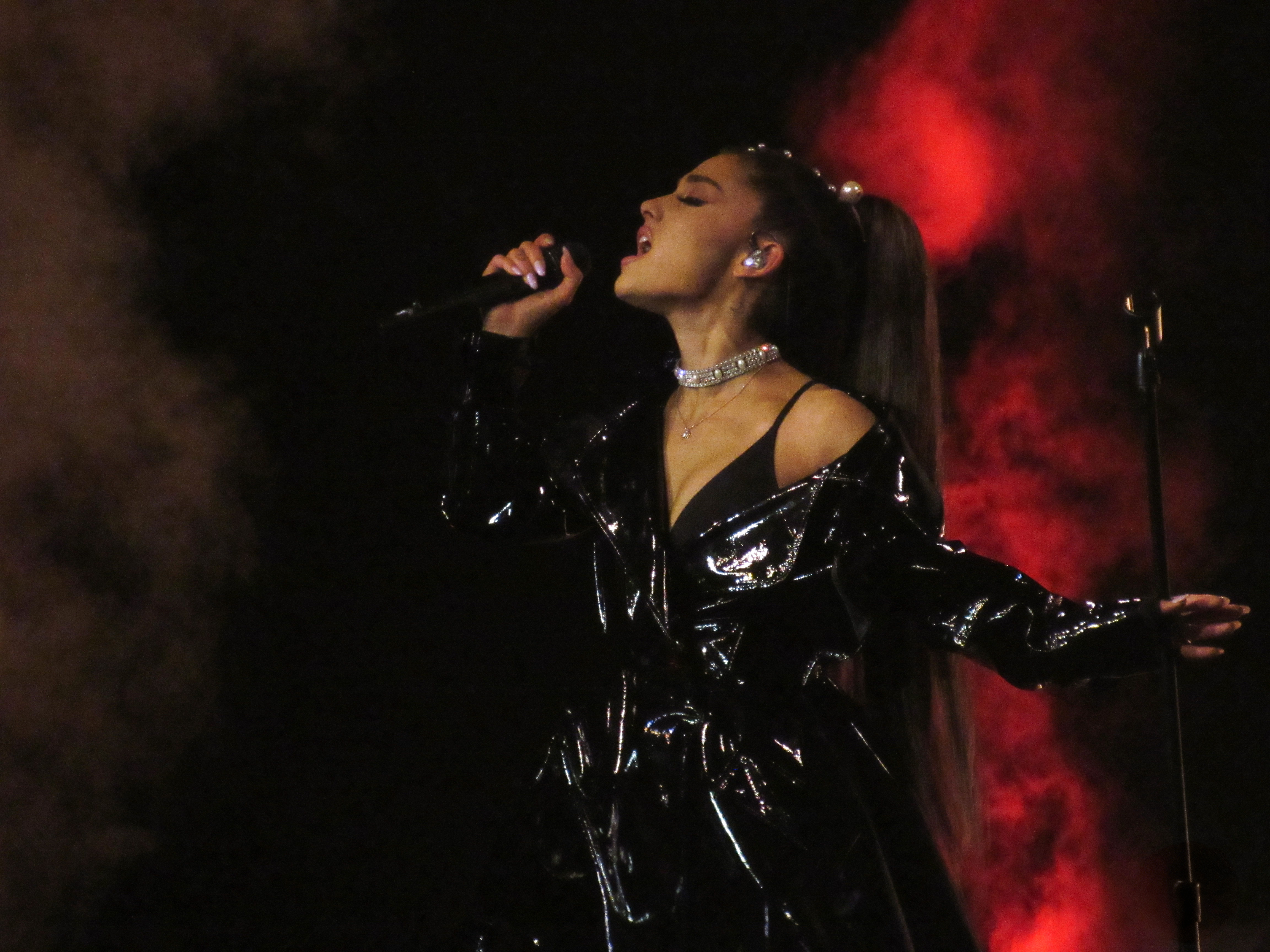 Ariana Grande performing "Dangerous Woman" during Dangerous Woman Tour on February 19, 2017.